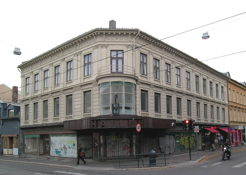 Halléngården, Thorvald Meyers gate 59, Oslo. Erected ca. 1880. The corner rebuilt in functionalist style 1931 by architect Ole Sverre.